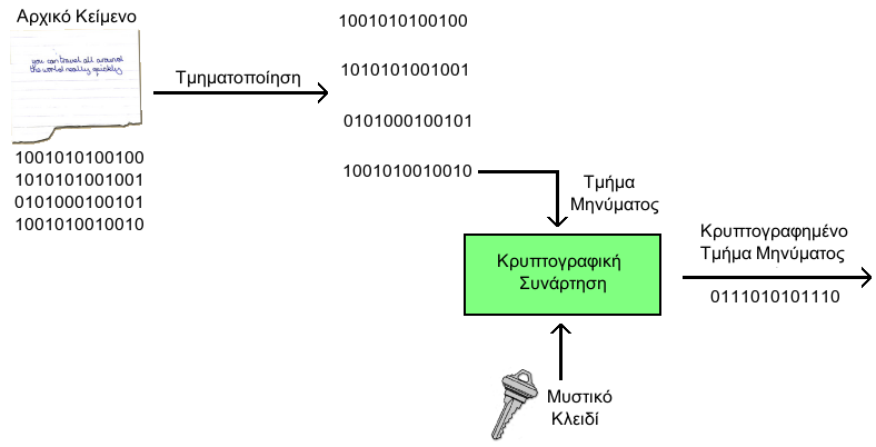 Block ciphers diagram